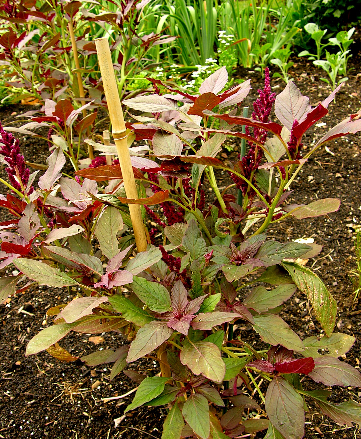 Picture of the Amaranthus cruentus en plant. Photo taken at the Chanticleer Garden where it was identified.